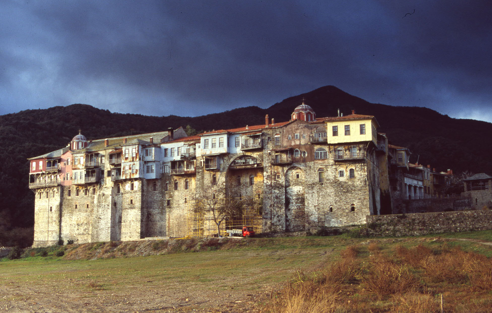 Iviron Monastery on Mount Athos